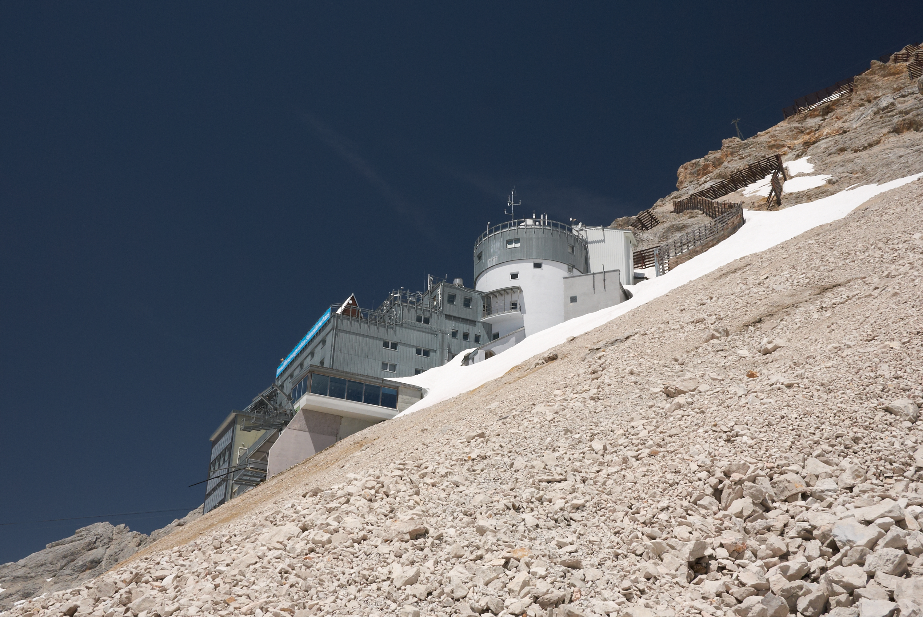 The Schneefernerhaus (environmental research station) at 2650 m a.s.l. on the Zugspitze